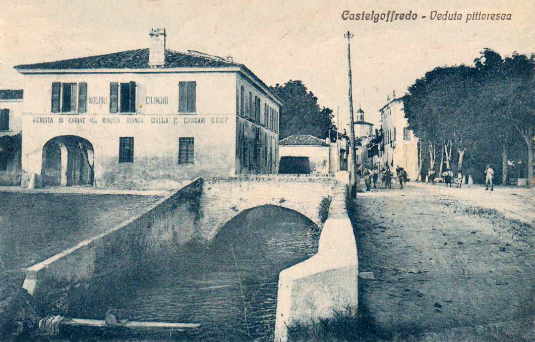 Castel Goffredo, old mill.